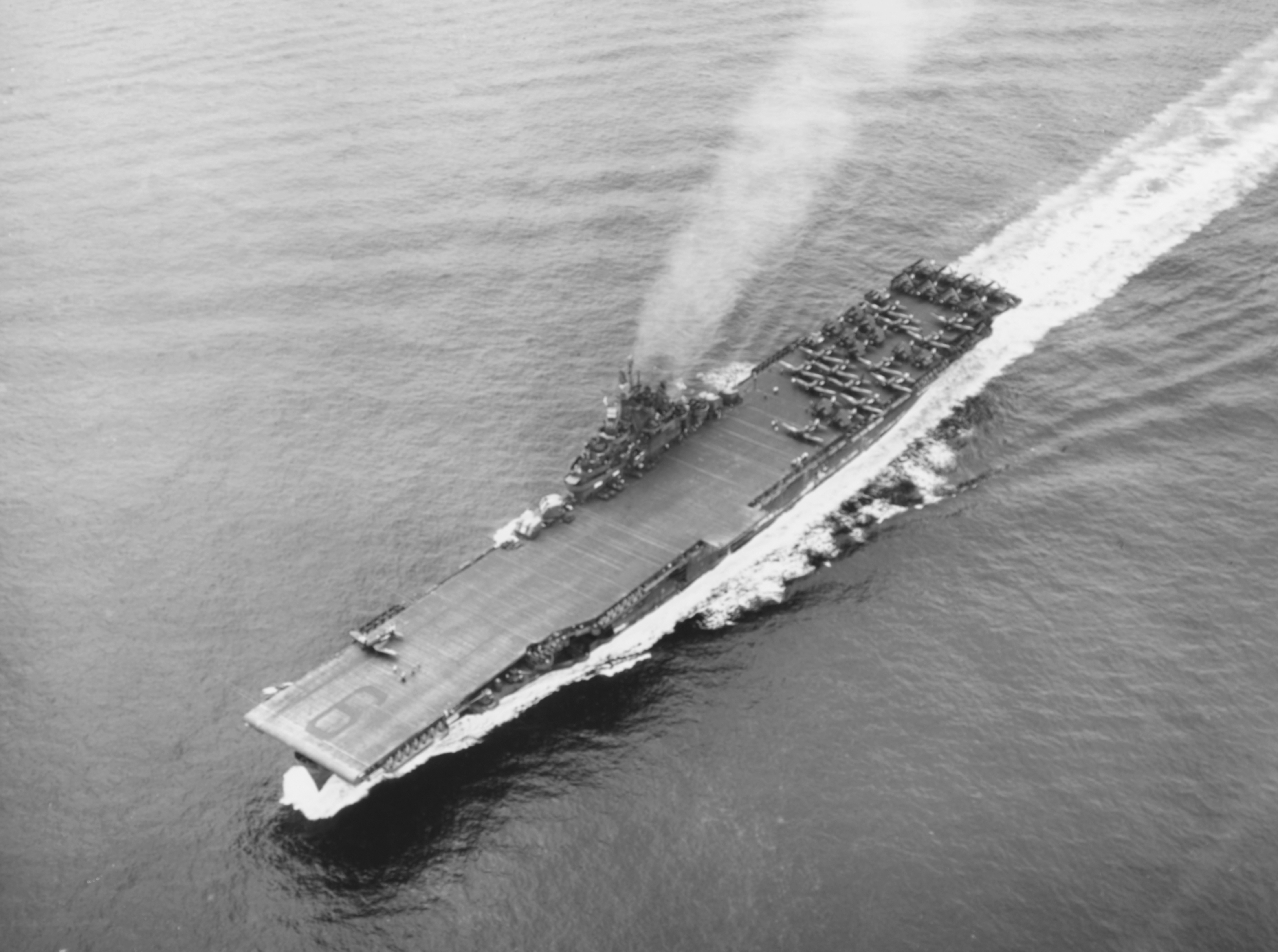 The U.S. navy aircraft carrier USS Essex (CV-9) underway at sea during the Okinawa Campaign, 20 May 1945. Note that her Carrier Air Group 83 (CVG-83) contains both Vought F4U-1 Corsair and Grumman F6F-5 Hellcat fighters of VBF-83 and VF-83.